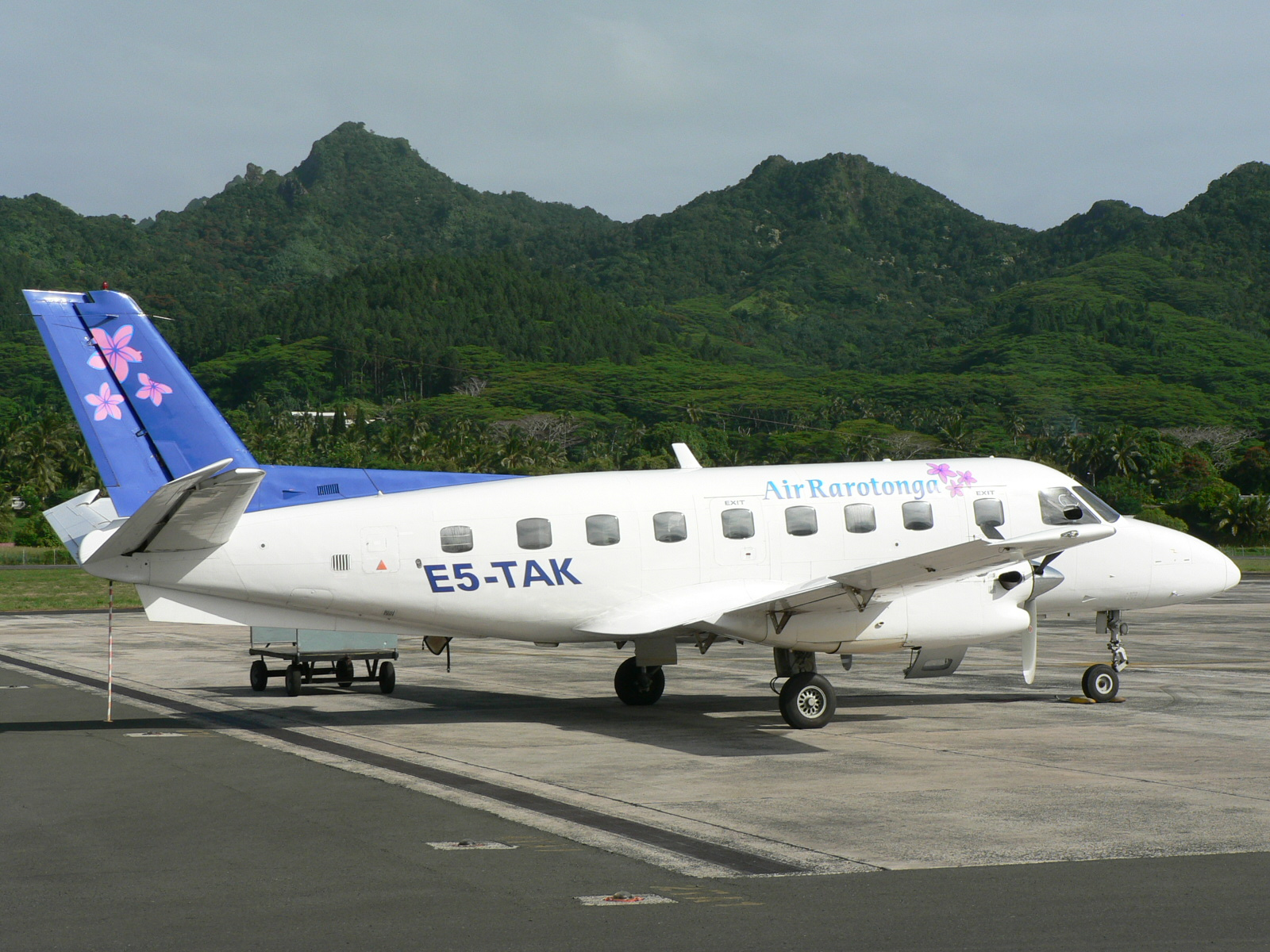 Air Rarotonga Embraer EMB 110 (E5-TAK) at Rarotonga Airport